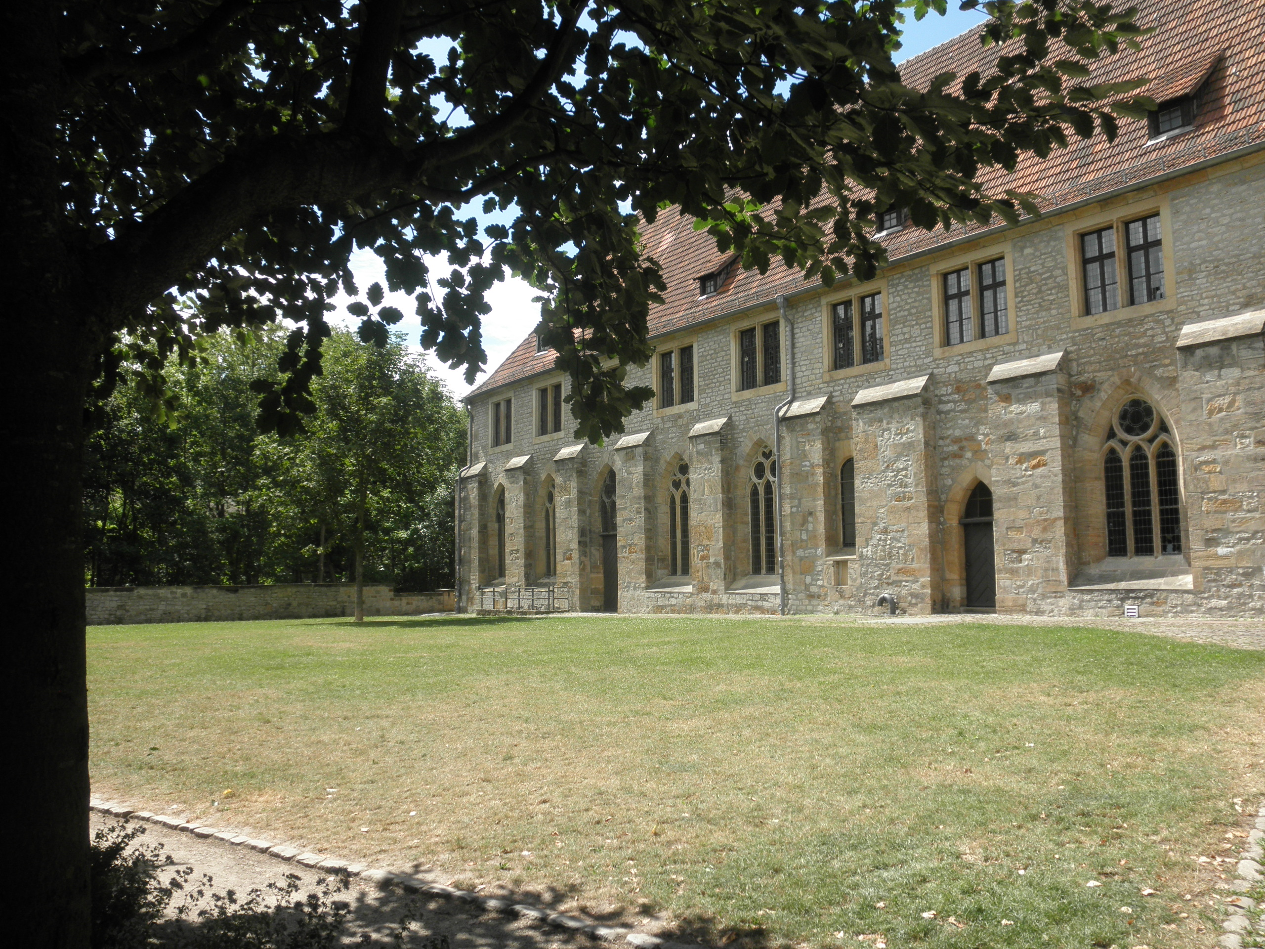 Predigerhof in Erfurt